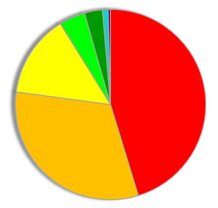 Expressed as a pie chart in the Nagasaki gubernatorial election in 2010, the number of votes for each candidate. explanatory notes ■ - Hodo Nakamura ■ - Tsuyoshi Hashimoto ■ - Atsushi Onita ■ - Reko Oshibuchi ■ - Takao Fukamachi ■ - Masahiko Yamada ■ - Mitsuyuki Matsushita